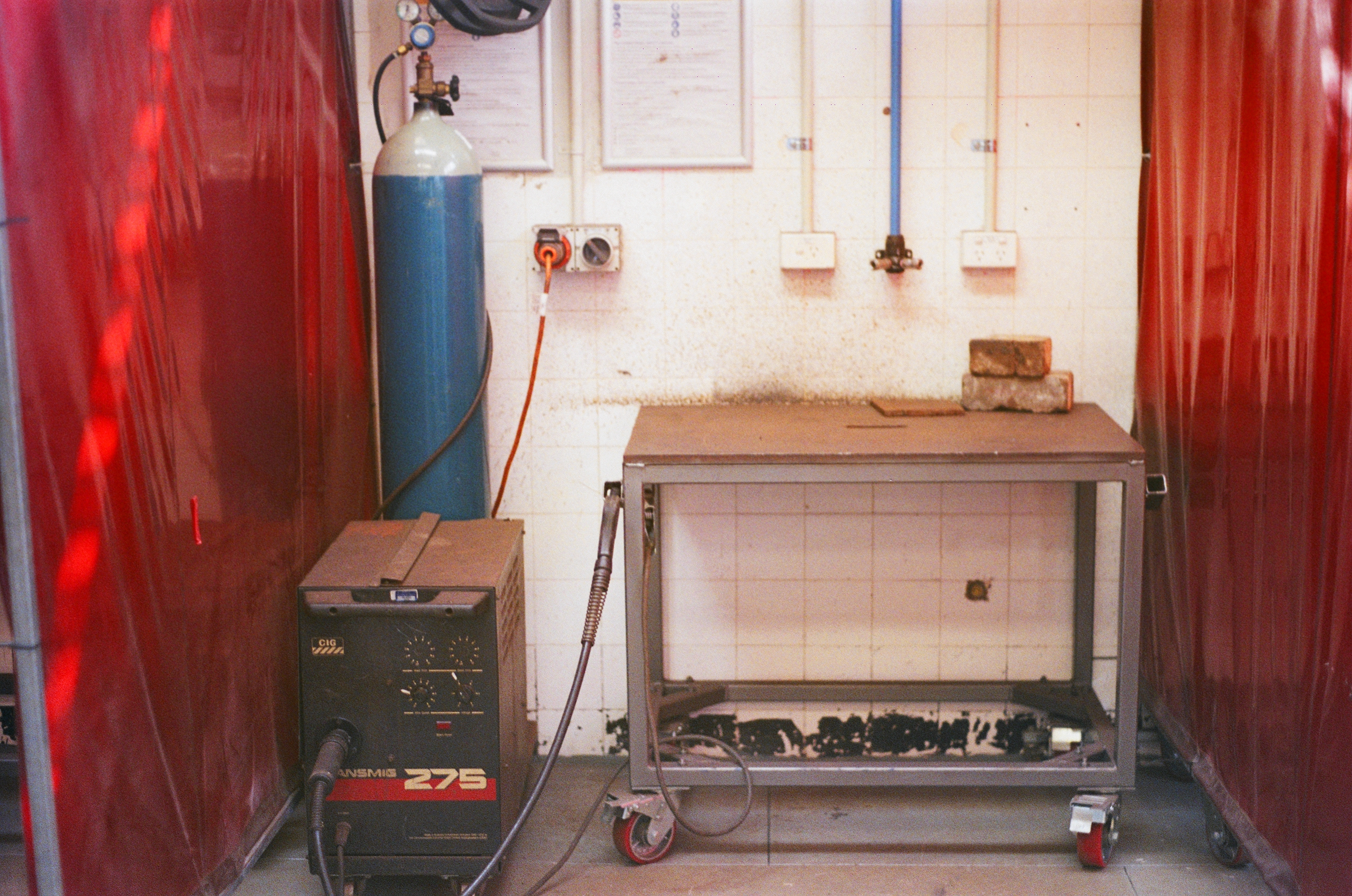 This is basic metal-wielding work station featuring items and tools used to weld metal objects together